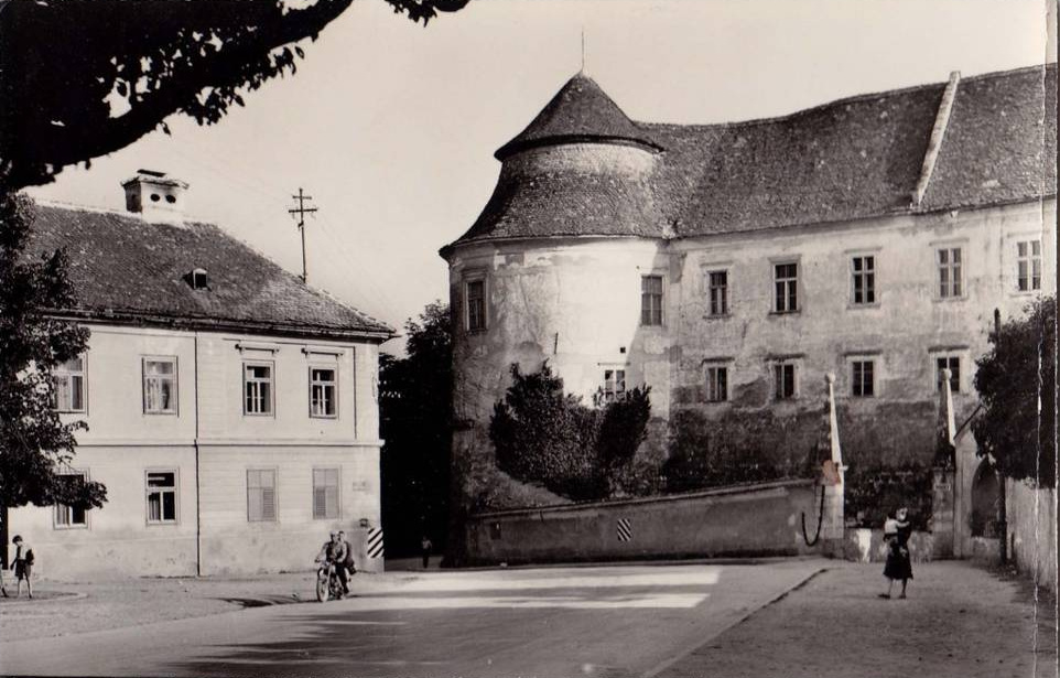 Postcard of Brežice Castle.